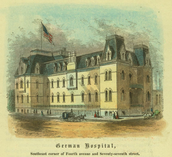 1868 etching of German Hospital, now Lenox Hill Hospital